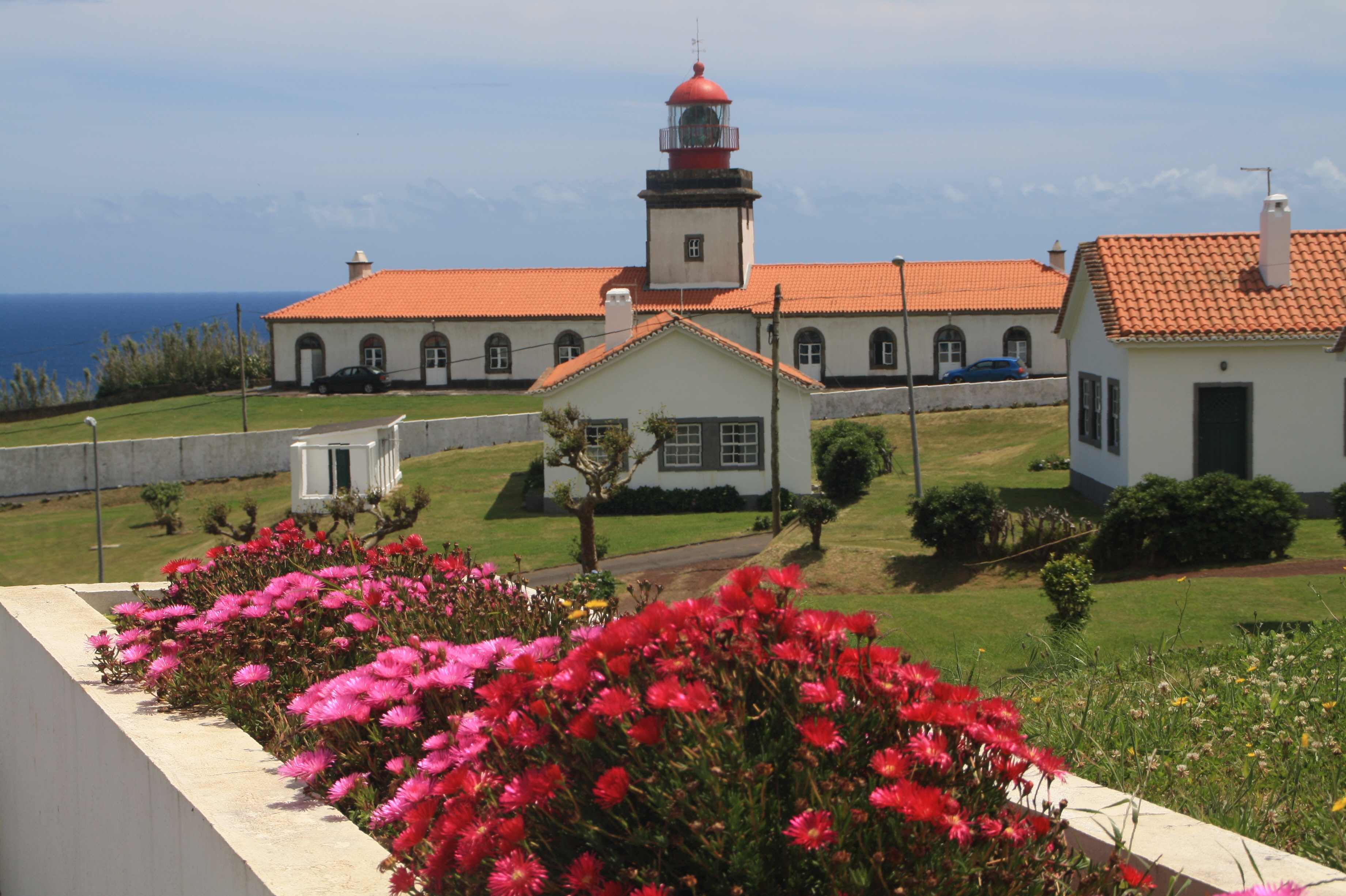 Azores, Flores, Lajes das Flores, Light House